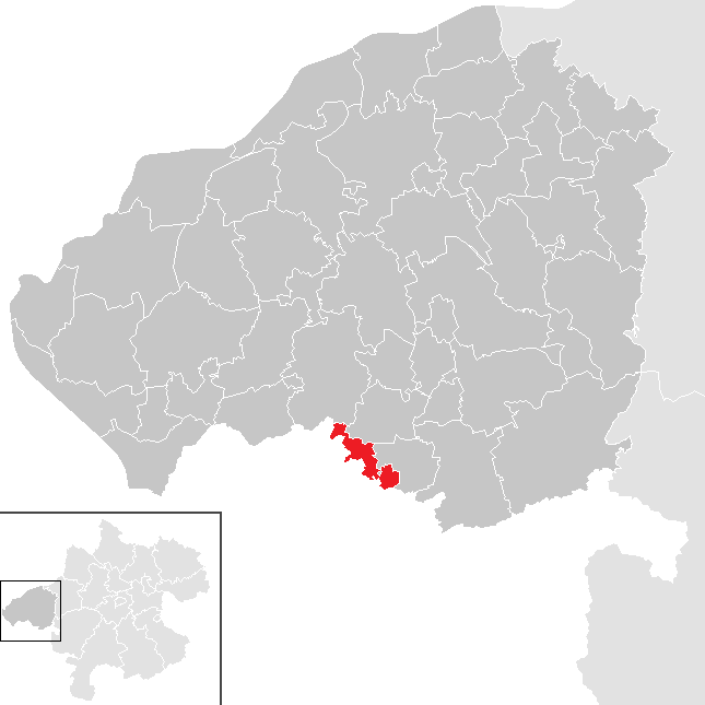 district Braunau am Inn